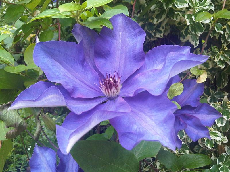 Cultivated Clematis 'The President' flower in London, England.